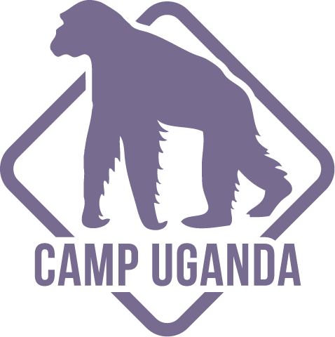 Logo for Camp Uganda, a subsidiary of Camps International.